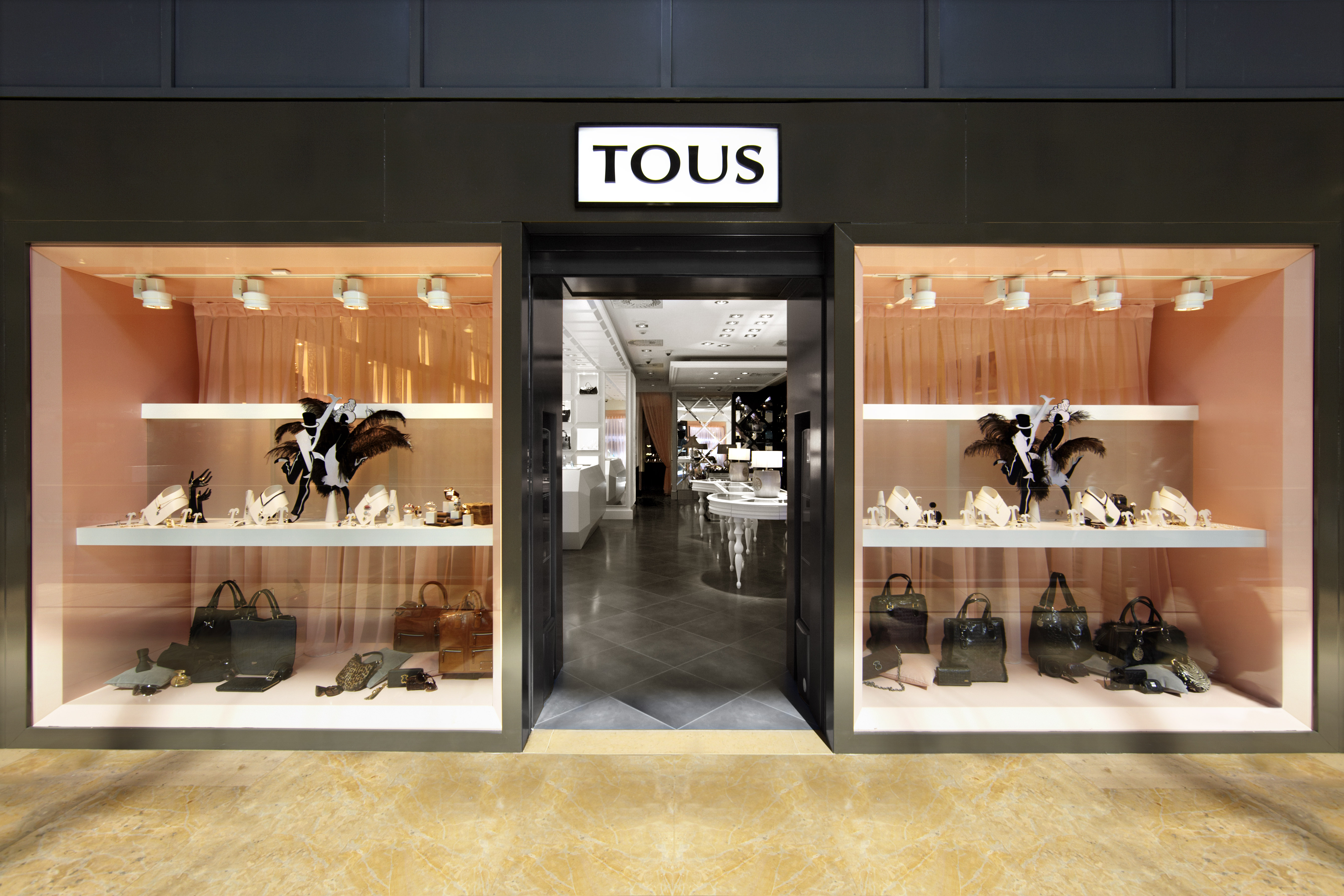 Picture from the TOUS shop on the L'ILLA mall.